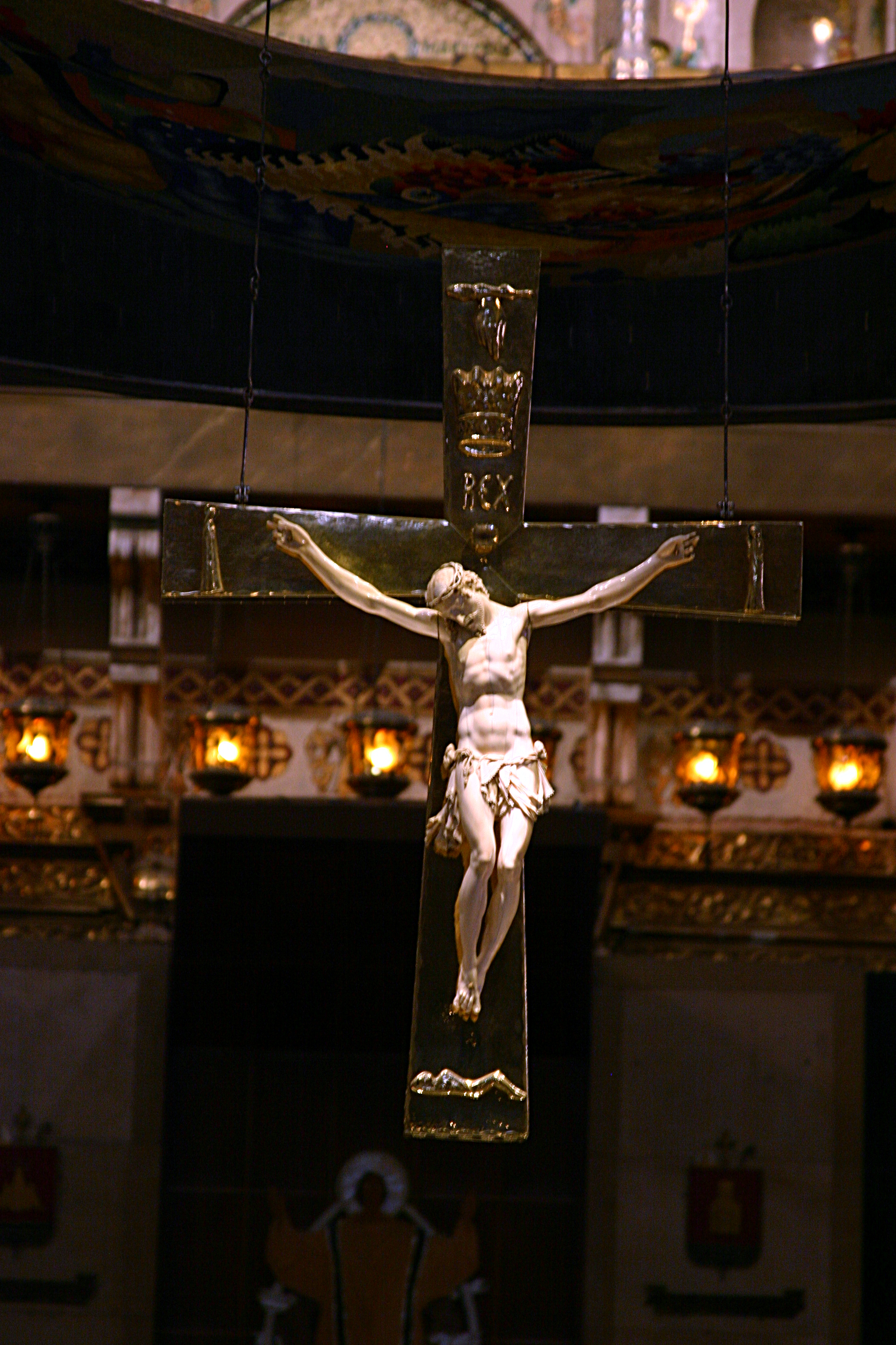 Interior of the Basilica of Montserrat